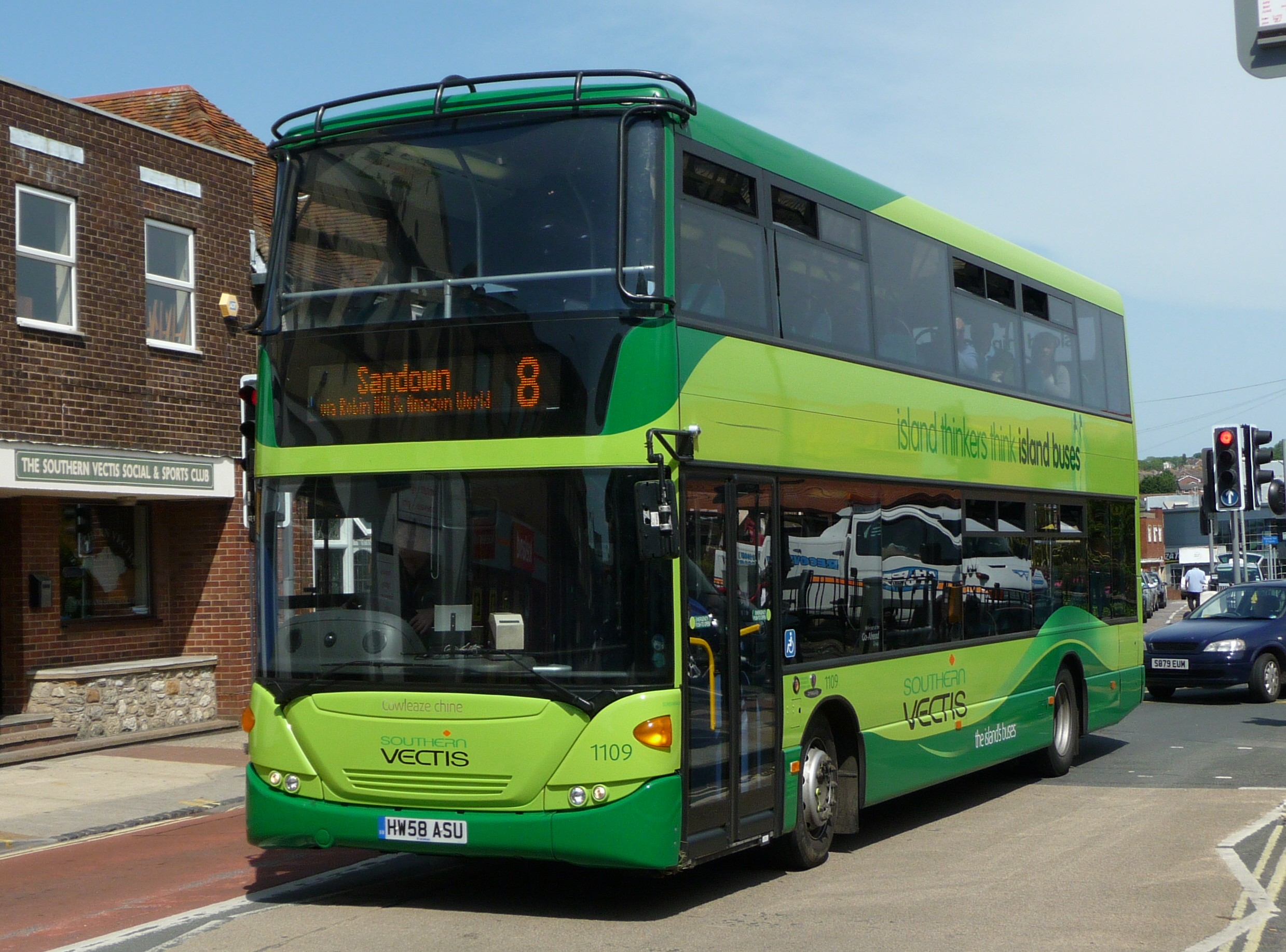 Southern Vectis 1109 Cowleaze Chine (HW58 ASU), a Scania CN270UD 4x2 EB OmniCity (built 2008), in South Street, Newport, Isle of Wight, on route 8.